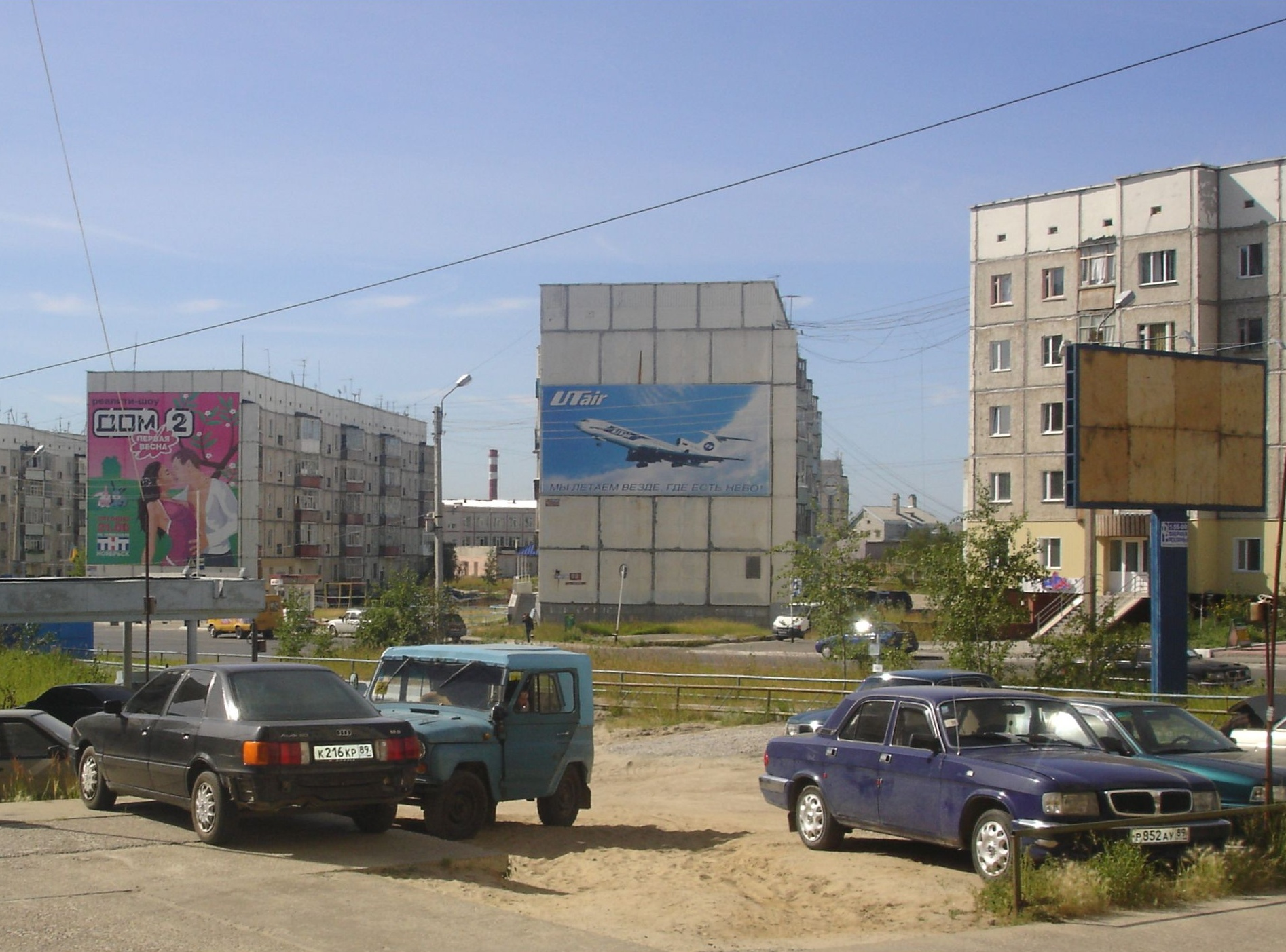 Noyabrsk, Yamalo-Nenets Autonomous Okrug (Russia).